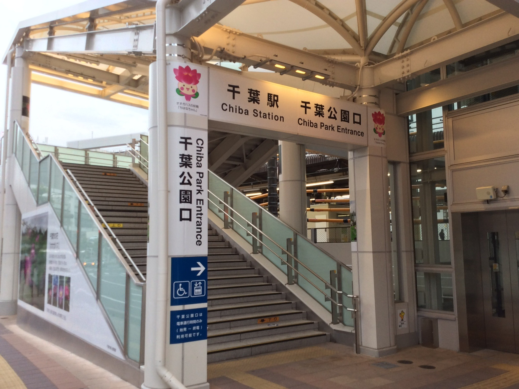 Chiba Park Entrance was set up in November 2016.